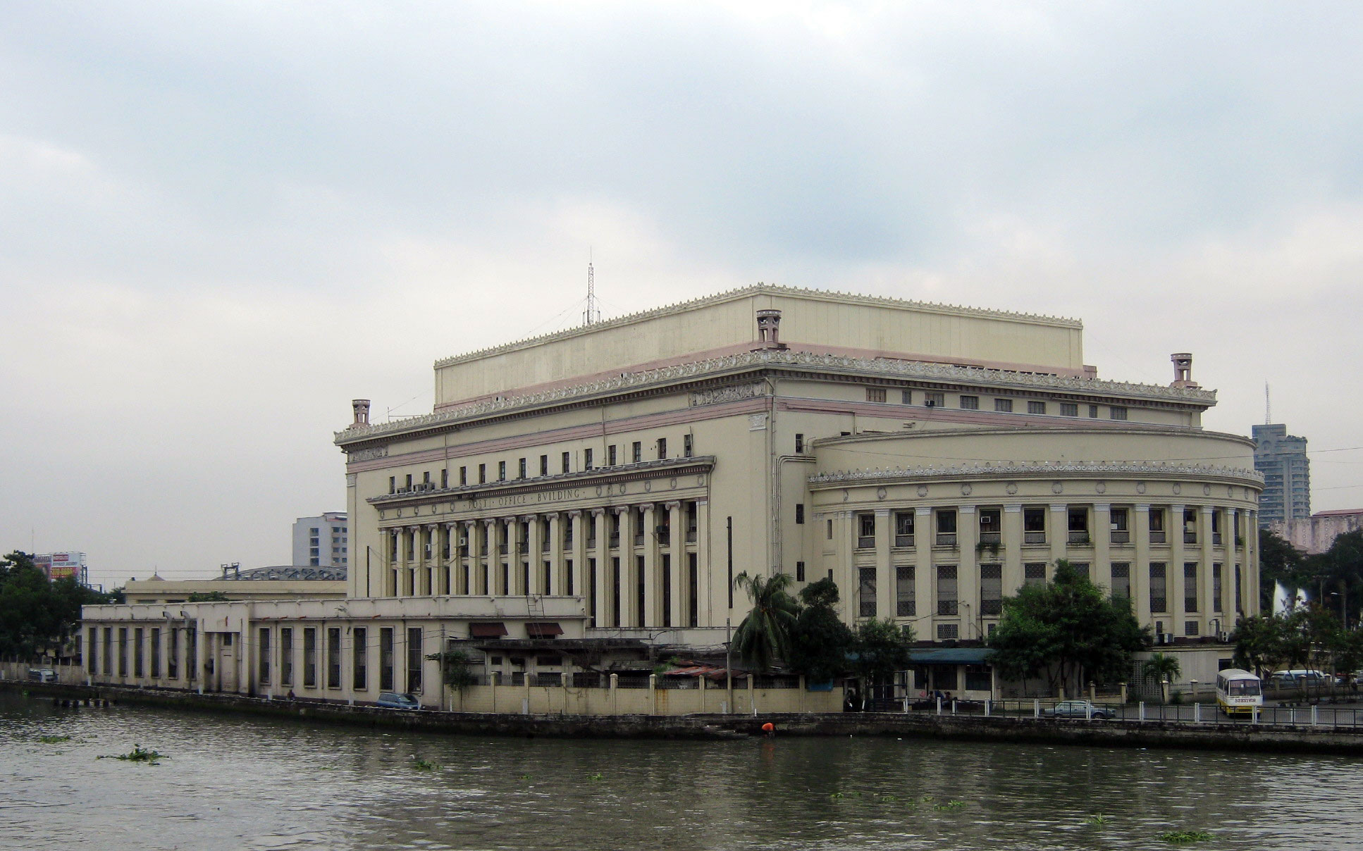 View of the Manila Central Post Office from the Pasig River in the Intramuros district of Manila, Philippines.